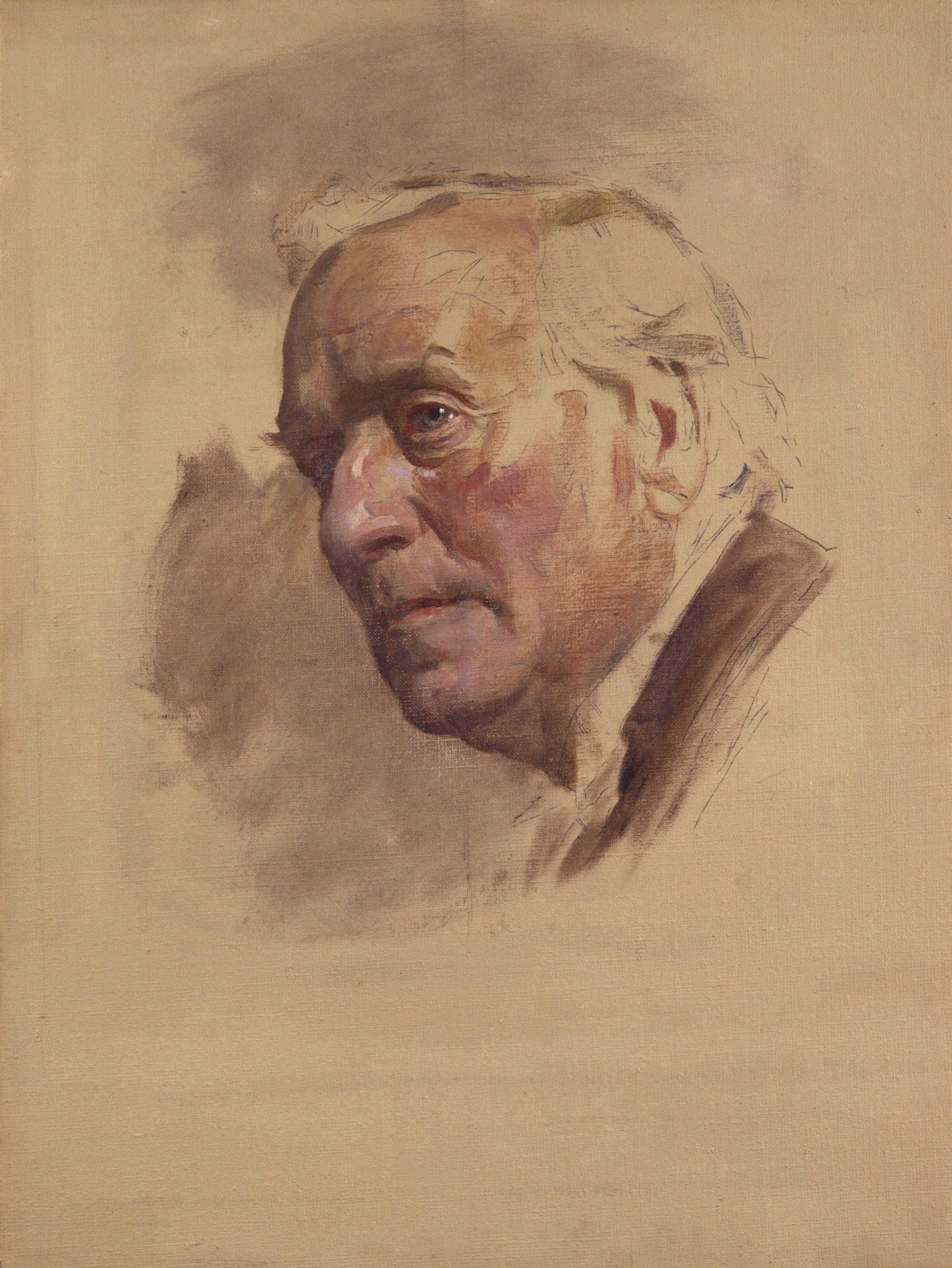 Herbert Henry Asquith, 1st Earl of Oxford and Asquith, by Sir James Guthrie (died 1930). All images in this batch have been confirmed as author died before 1939 according to the official death date listed by the NPG.